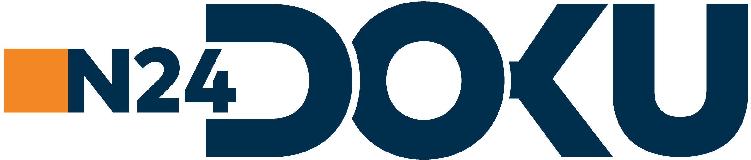 Logo of the german tv channel N24 Doku